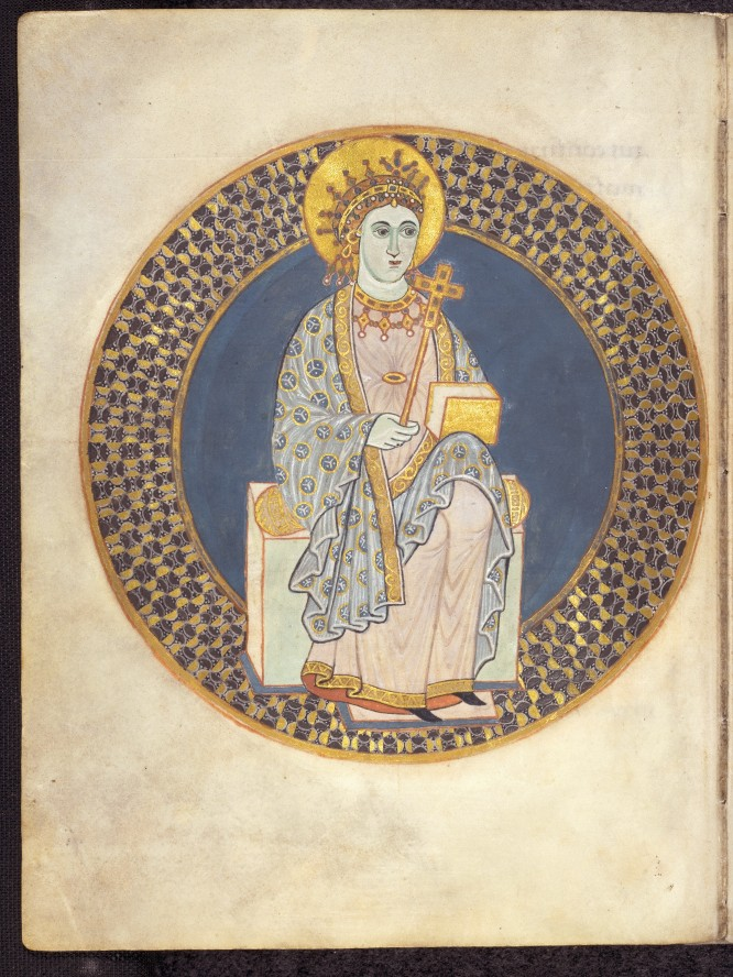 Illuminated page from the Petershausener Sakramentar (Cod. Sal. IX b) produced in the Benedictine Abbey of Reichenau on Reichenau Island.